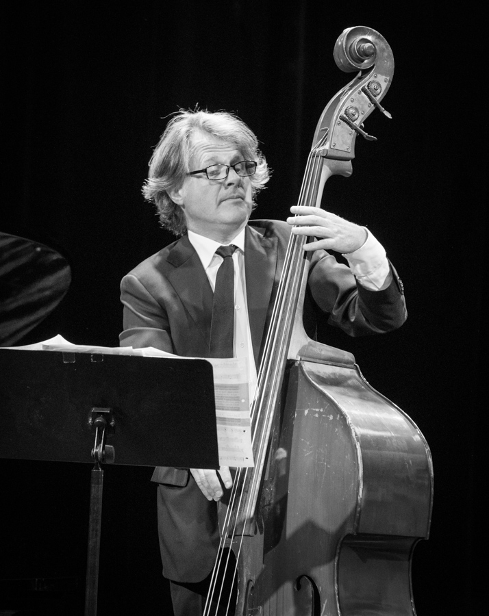 Gaute Storaas with Dagfinn Nordbø at the stage at Chat Noir. The concert was part of Oslo Jazzfestival and took place on 15. August 2017. Lineup: Dagfinn Nordbø (spoken words), Vigleik Storaas (piano) and Gaute Storaas (double bass).